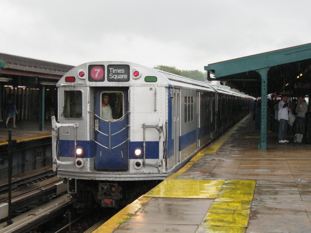 The Train of Many Colors, with 9010 in the 1970s scheme at the tail, sits at the then-Willets Point-Shea Stadium station. The train, which also ran on Opening Day 2008, was run for the closing day of Shea Stadium.